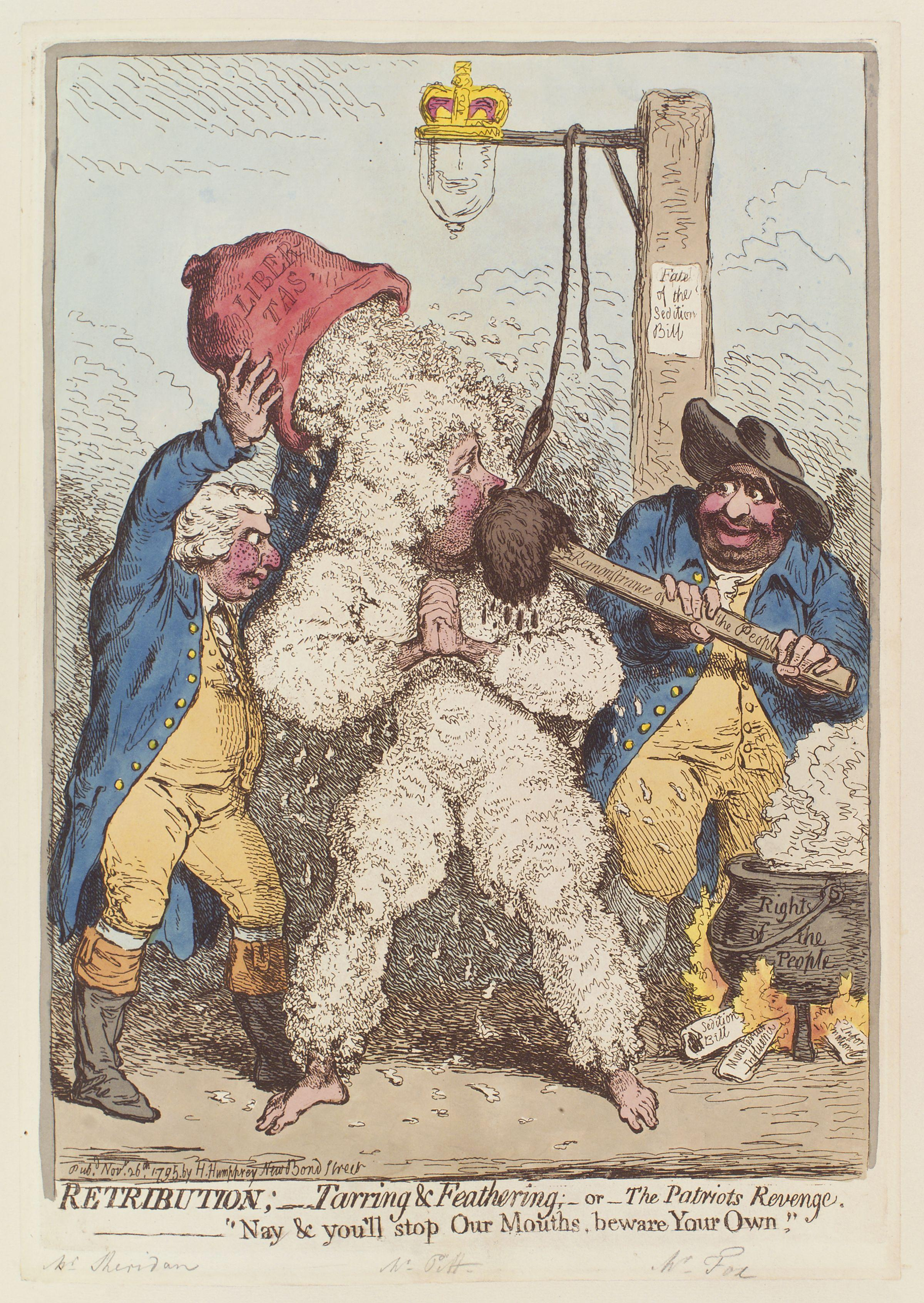 Retribution; - tarring and feathering; - or - the patriots revenge, by James Gillray (died 1815), published 1795. All images in this batch have been confirmed as author died before 1939 according to the official death date listed by the NPG.